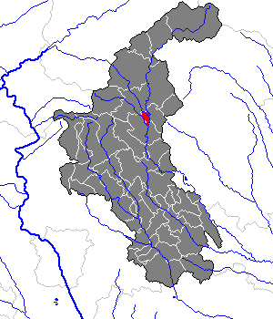 This map shows the area of the Gemeinde (municipality) Birkfeld in the Bezirk (district) Weiz, Styria, Austria.